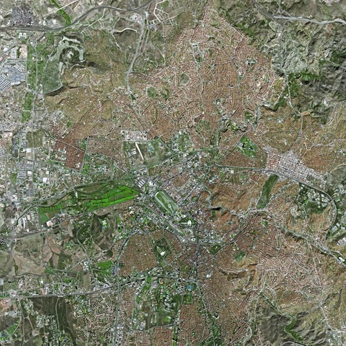 Ankara by SPOT Satellite